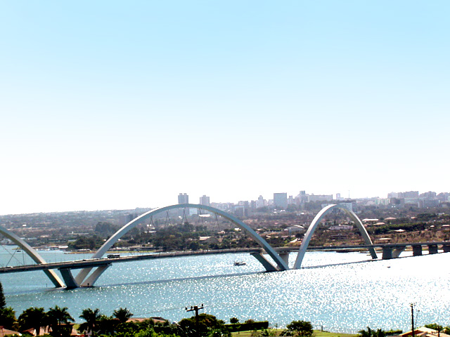 Juscelino Kubitschek bridge, Brasília, Brazil.